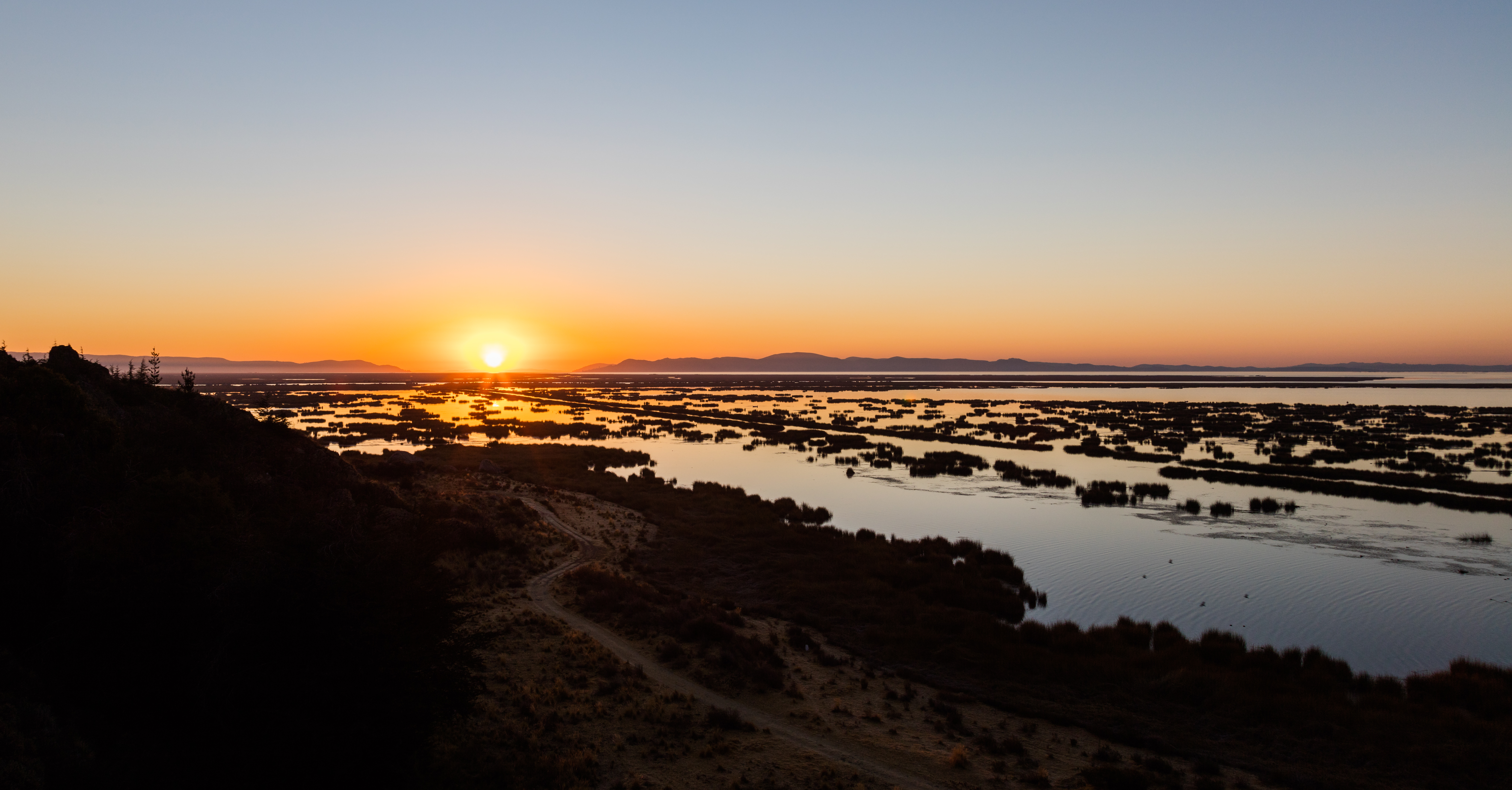 Sunrise over the Titicaca lake, Puno, Peru